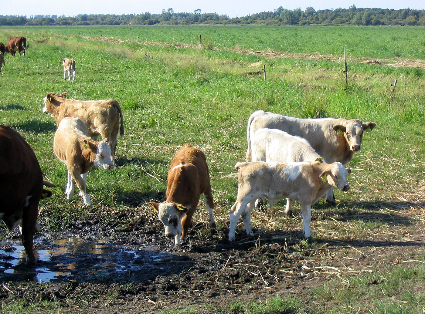 Calves in Germany